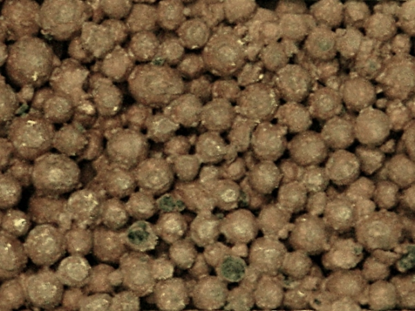 keramzit